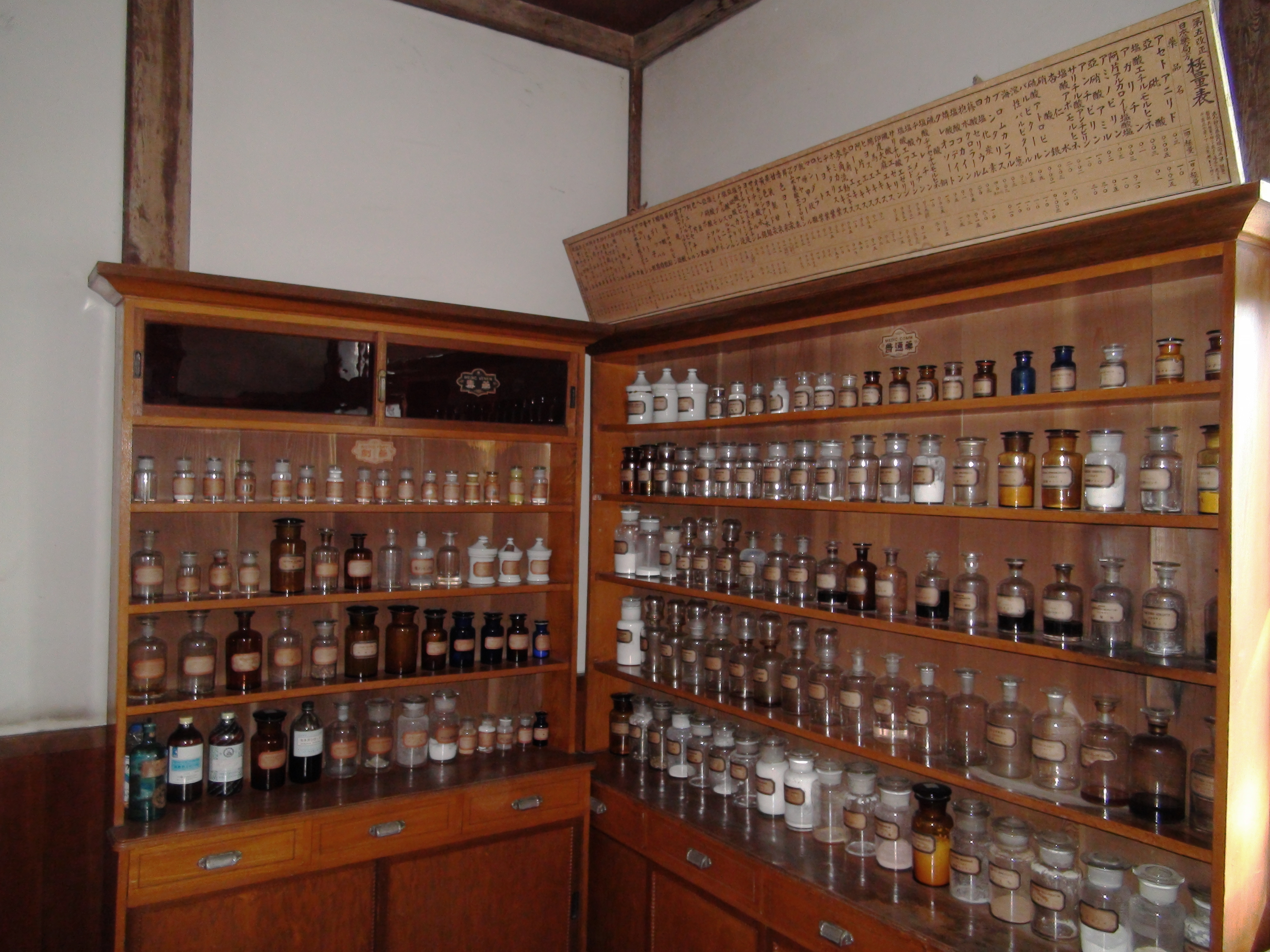 The medicine of the medical office of Dr. Sugiura（Schistosoma japonicum measure）